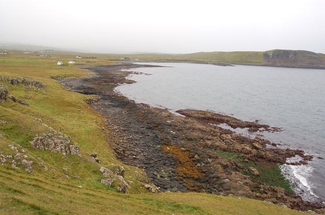 Camas Mor - the big beach - near Bornesketaig, in Trotternish, Skye